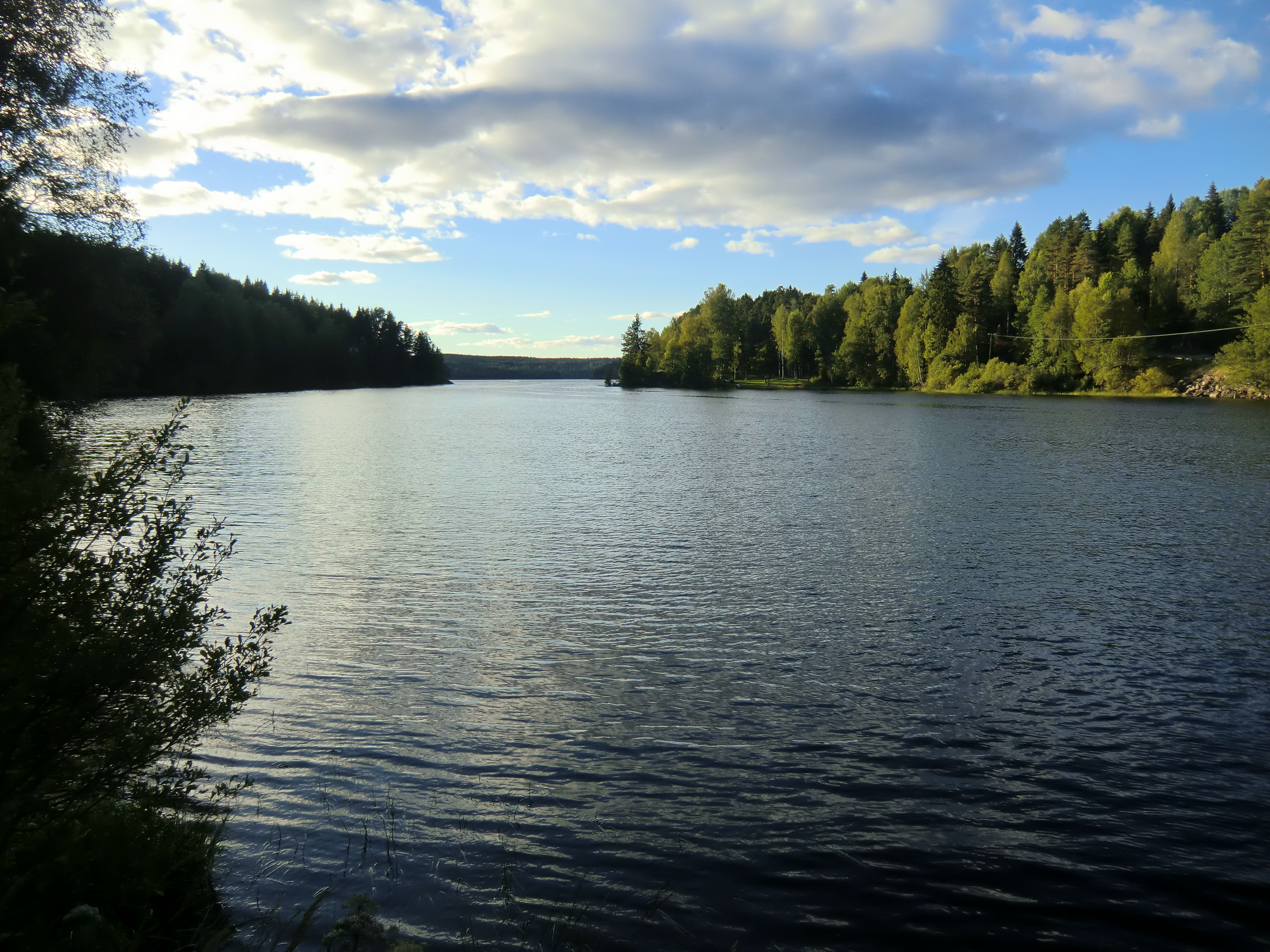 Lake Askesjön in Värmland, Sweden.